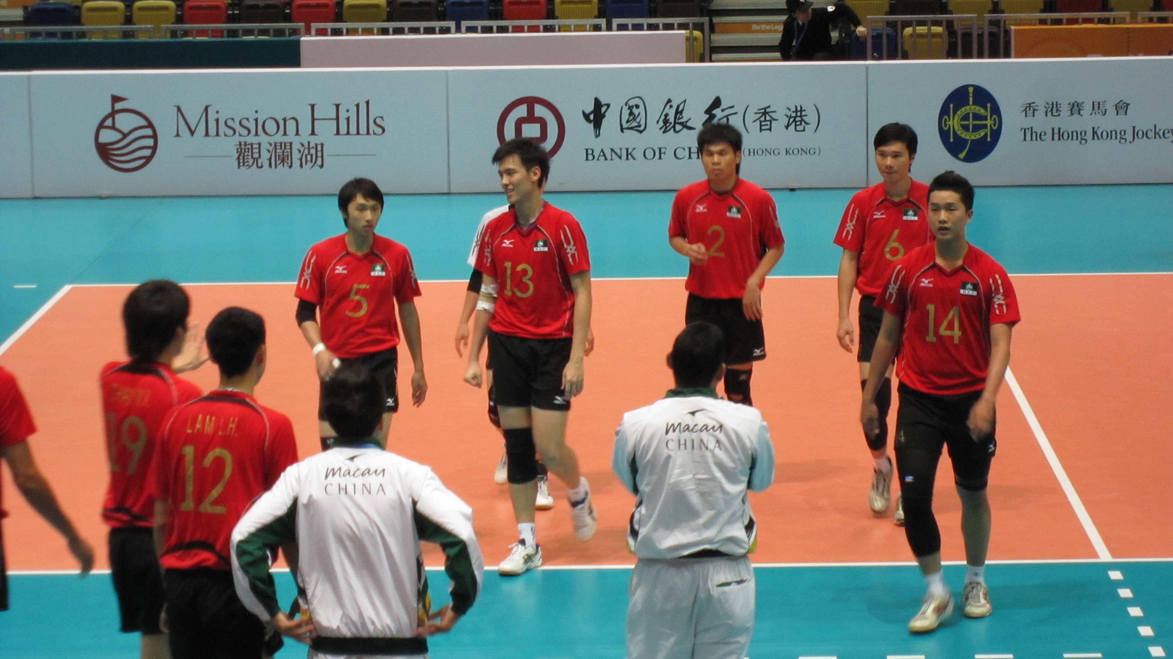 Hong Kong East Asian Games